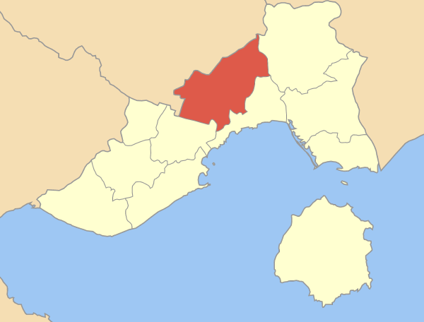 Locator map of Filippi municipality (Δήμος Φιλίππων) in Kavala prefecture (Νομός Καβάλας) in Greece.